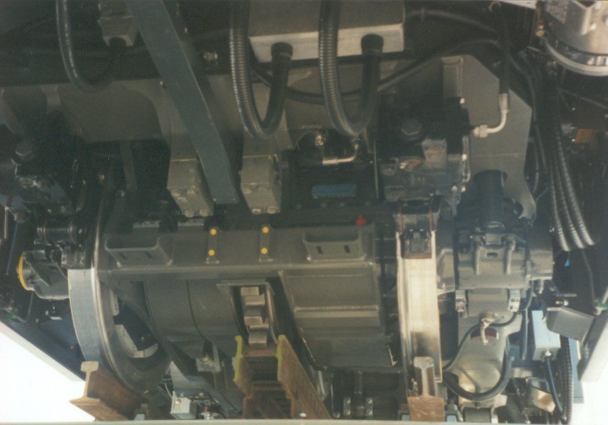 Bogie of the EMU from Stadler for Zugspitzbahn with Riggenbach rack system - Innotrans Berlin.